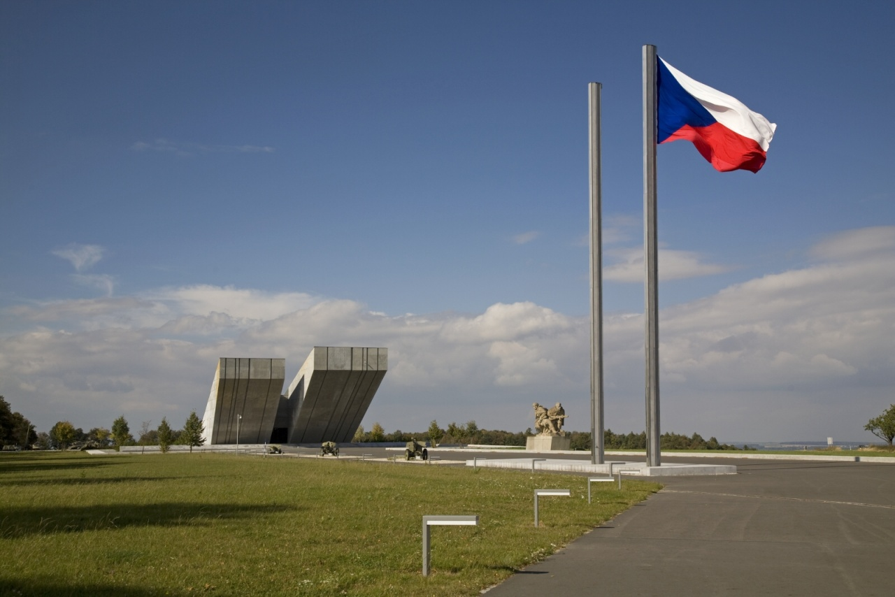 Silesian museum - Hrabyň